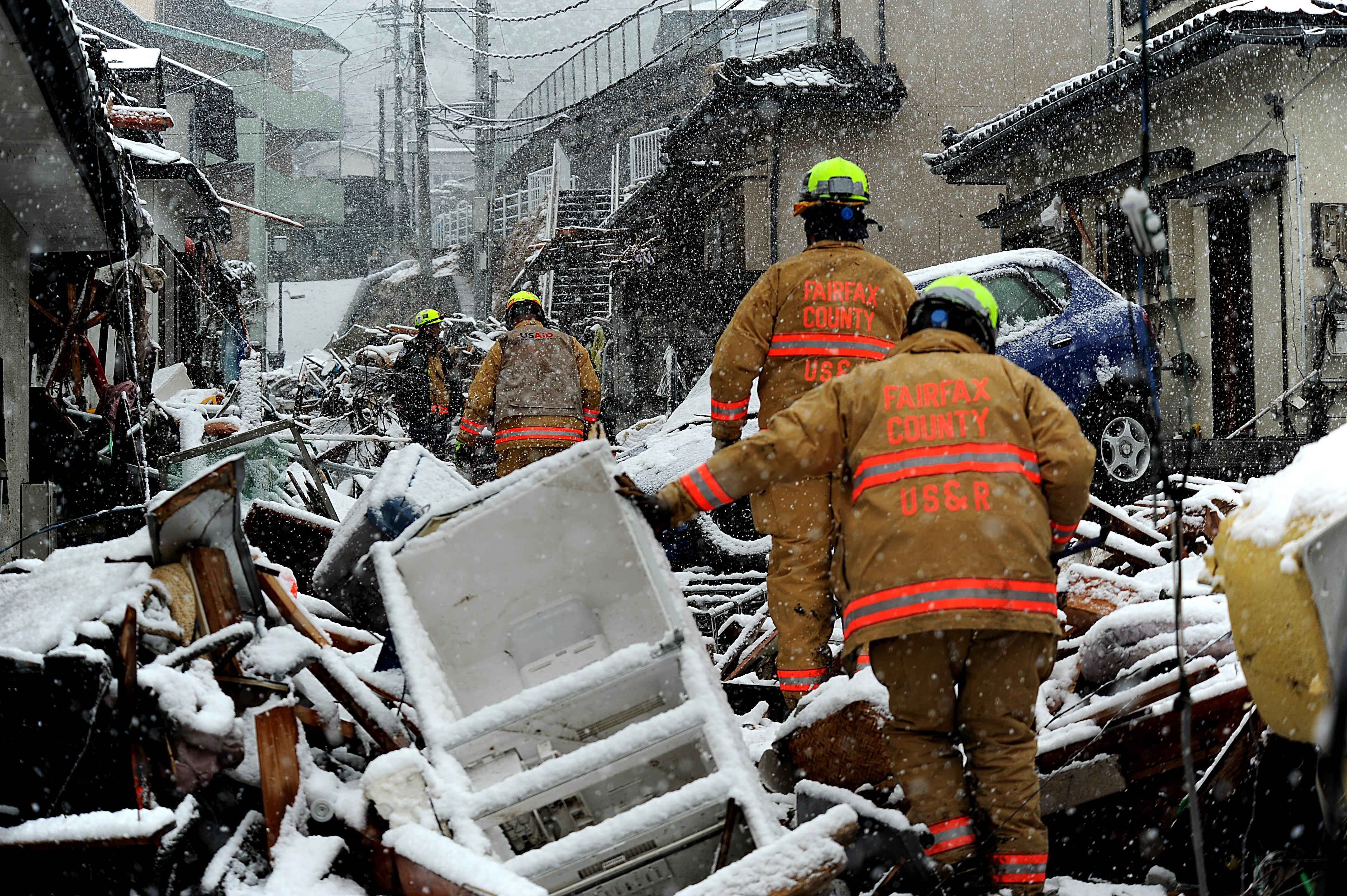 Members of the Fairfax County, Va., Task Force 1 Urban Search and Rescue search structures and debris on March 16, 2011 in Kamaishi, Japan. A 9.0 earthquake hit Japan on March 11, 2011 that caused a tsunami that destroyed anything in its path. 1st Combat Camera Squadron Photo by Master Sgt. Jeremy Lock Date Taken:03.16.2011 Location:KAMAISHI, 23, JP Related Photos